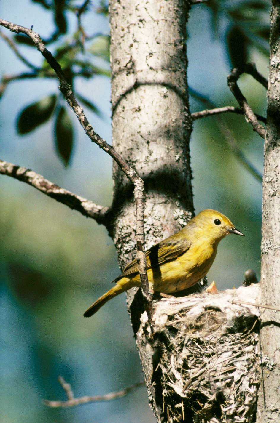 Yellow Warbler Dendroica aestiva (syn. D. petechia aestiva) attends to the nest, Yukon Flats National Wildlife Refuge Attempt at color correction.